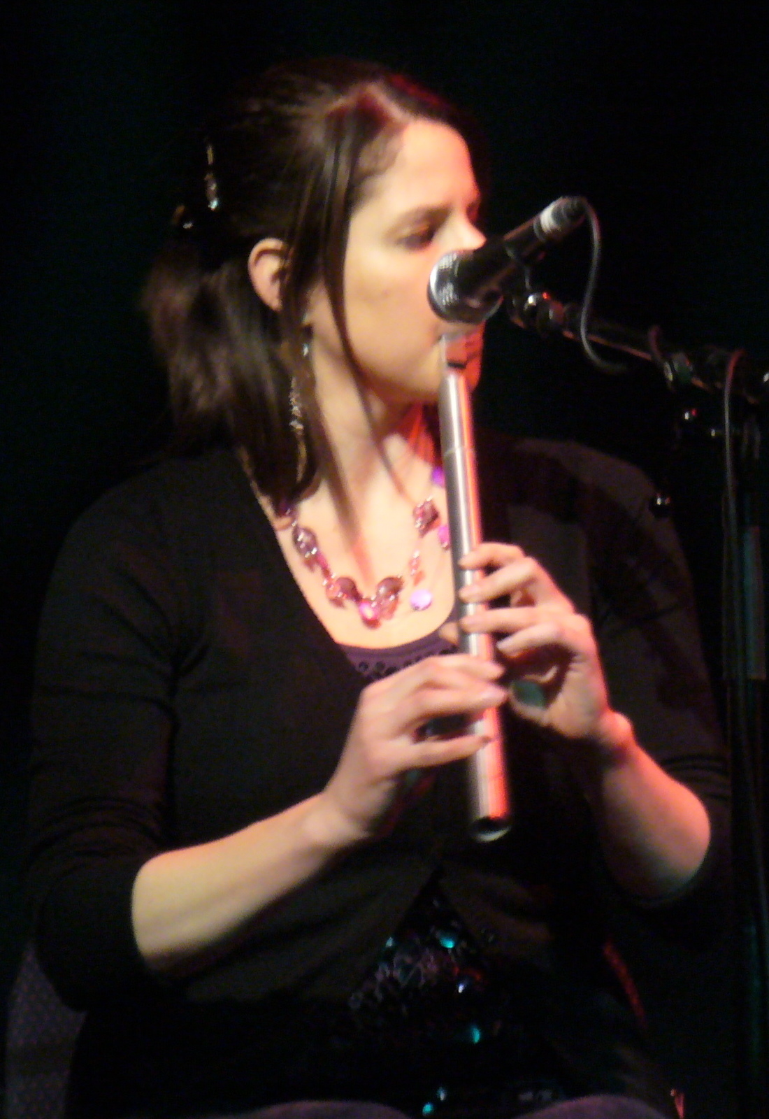 Steph Geremia in 2010